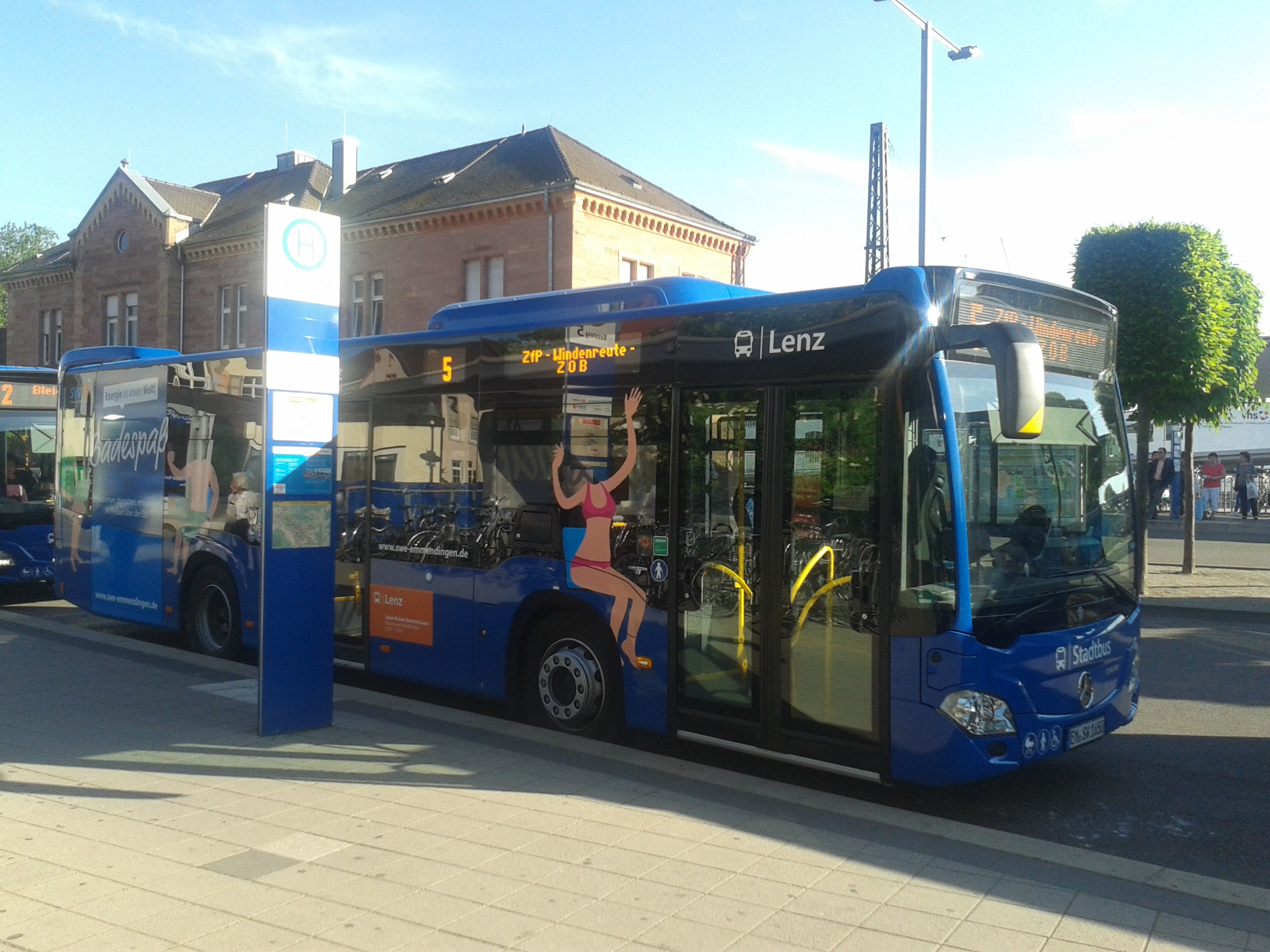 Citybus in Emmendingen, Germany, named after the German Poet Jakob Michael Reinhold Lenz Аҧсшәа: Stadtbus in Emmendingen, Baden-Württemberg, benannt nach dem Dichter Jakob Michael Reinhold Lenz.